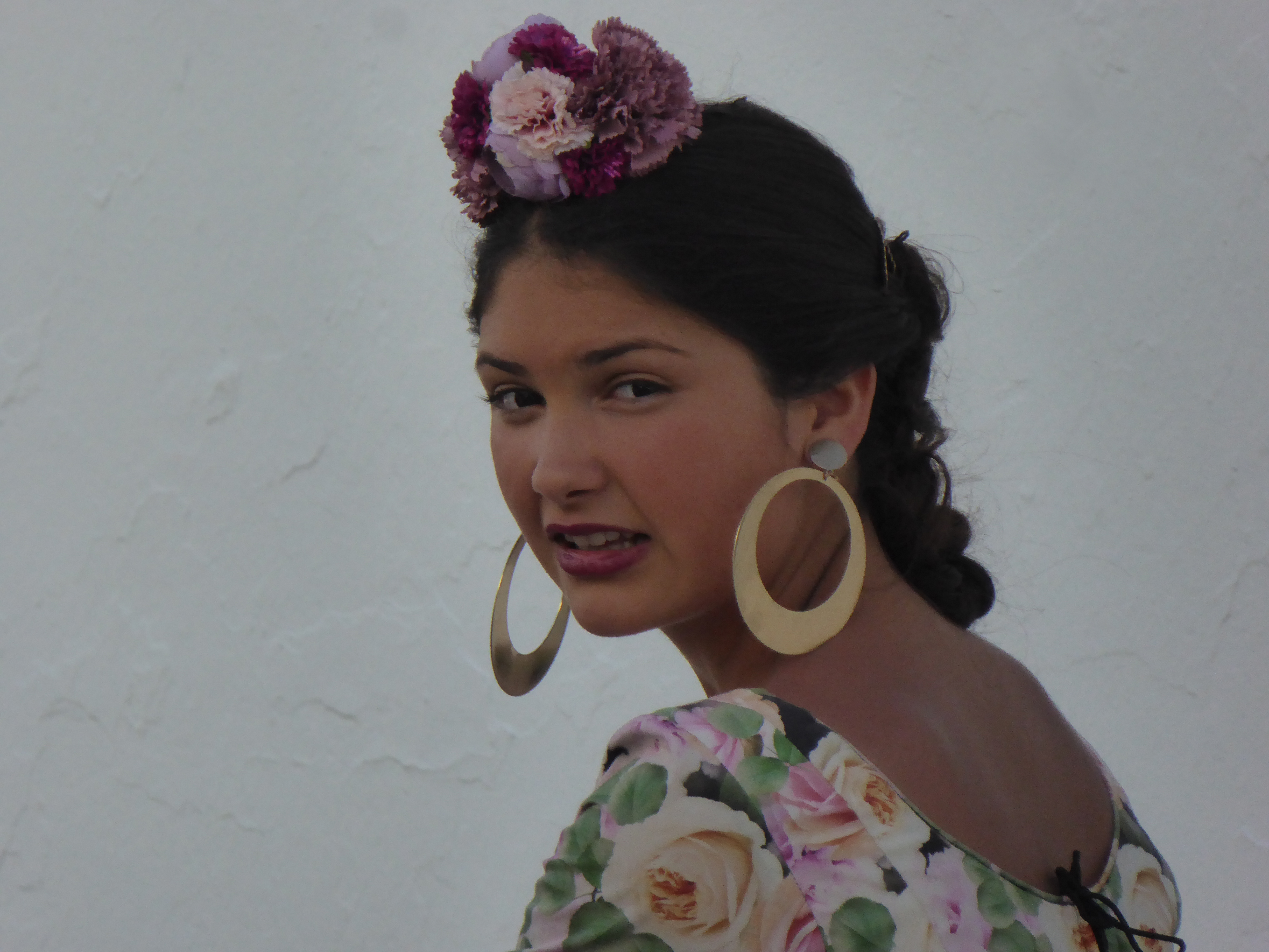 Andalusian girl in folk costume, during the festival of Nuestra Señora de Piedras Albas, El Almendro, Huelva, Spain, 2019.